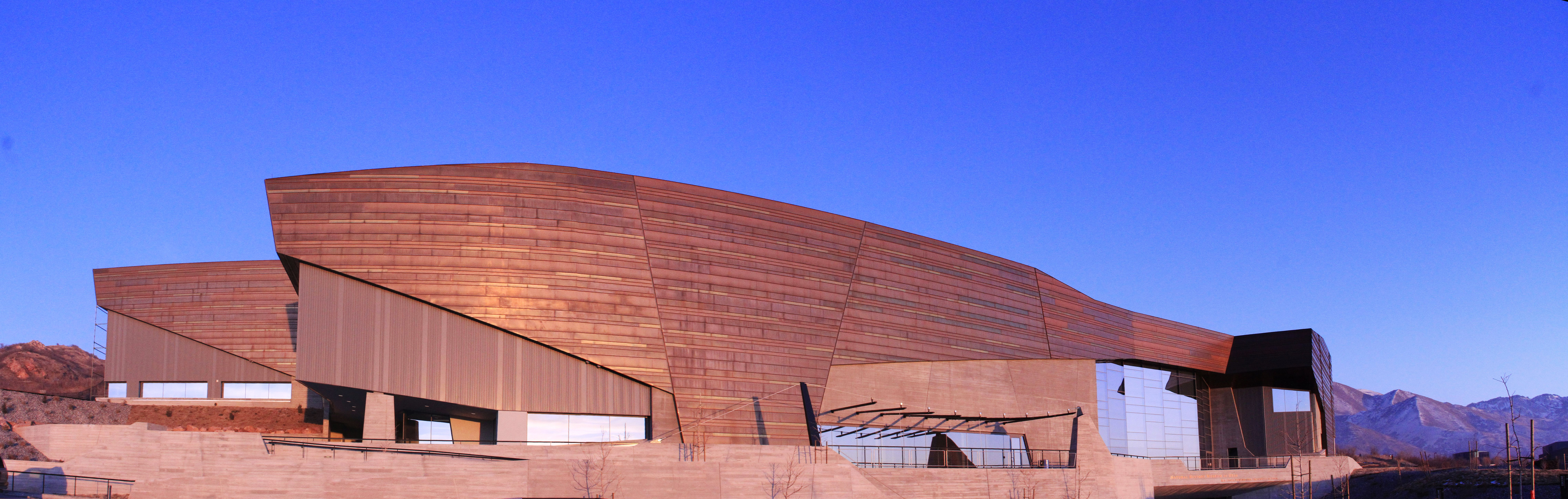 The Natural History Museum of Utah (NHMU) is a museum located at the Rio Tinto Center on the campus of the University of Utah in Salt Lake City, Utah, United States.